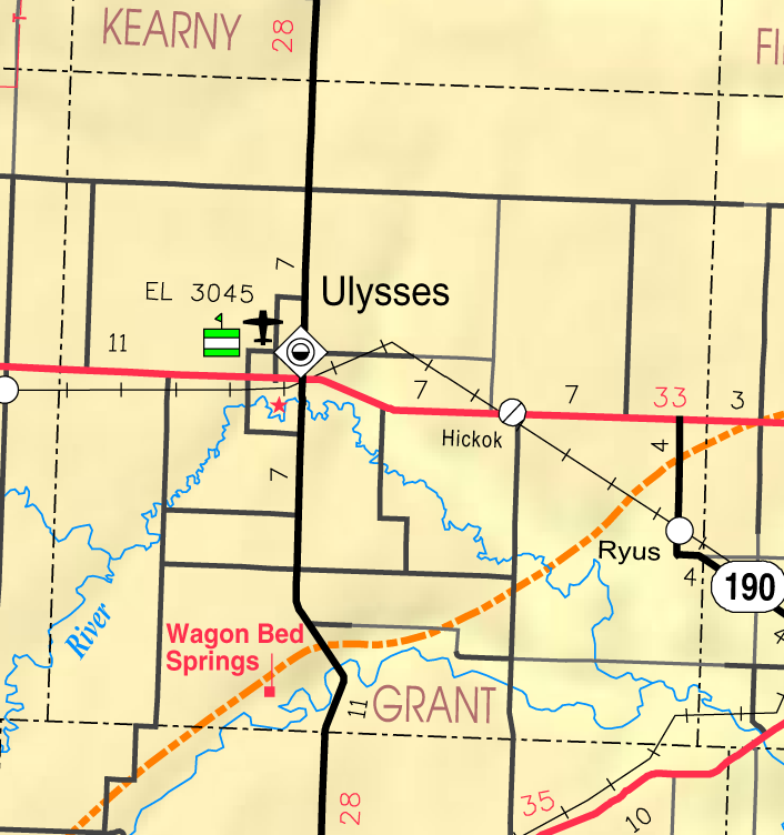 This map of Grant County, Kansas, USA, is copied at a resolution of 300 pixels/inch from the original PDF file.